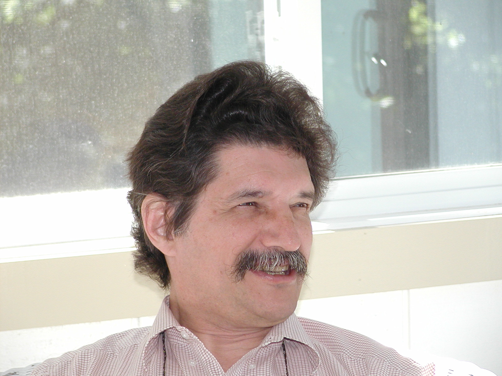 Photo of Robert J. Chassell